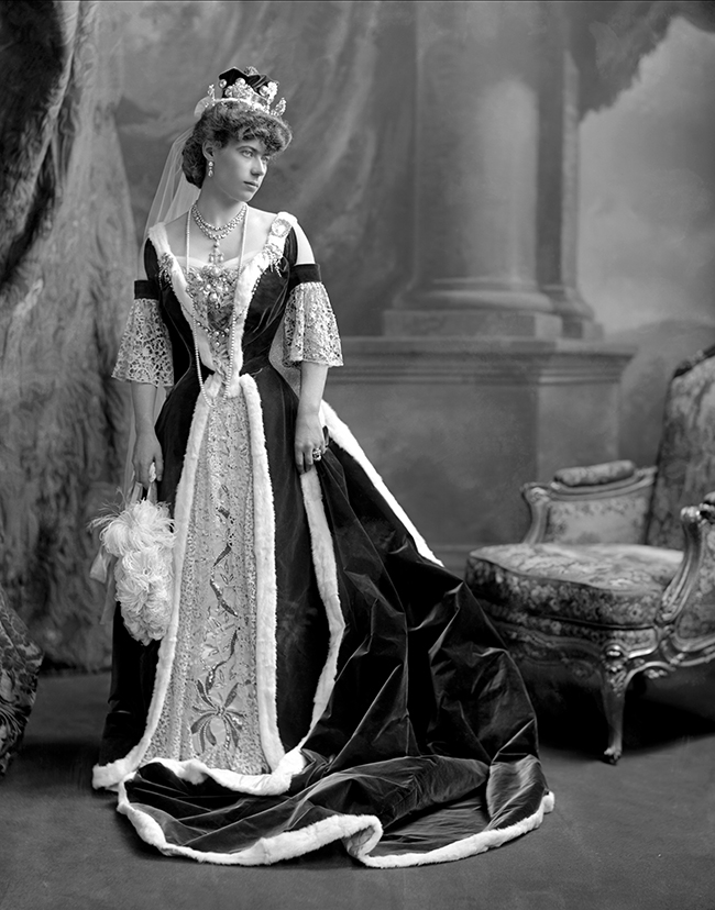 Evelyne (Vaughan), Baroness Foley (1876-1968), née Radford. Photographed 11 August 1902